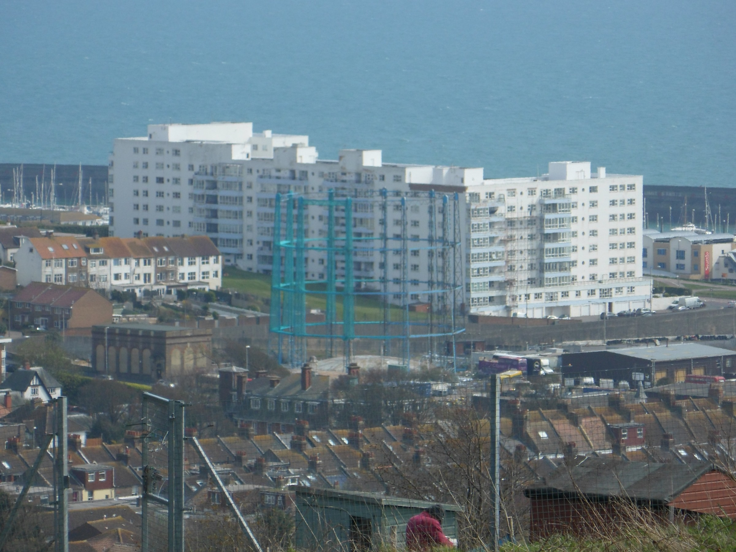 Marine Gate, Marine Parade, Black Rock, City of Brighton and Hove, England. A large block of flats built in 1939 to the design of architects Wimperis, Simpson and Guthrie. It stands at the eastern end of Brighton, overlooking Brighton Marina and Black Rock. This view is taken from Whitehawk Hill (nearly 400 feet above sea level), near the Whitehawk Hill transmitter and just above the allotments (visible in the foreground).